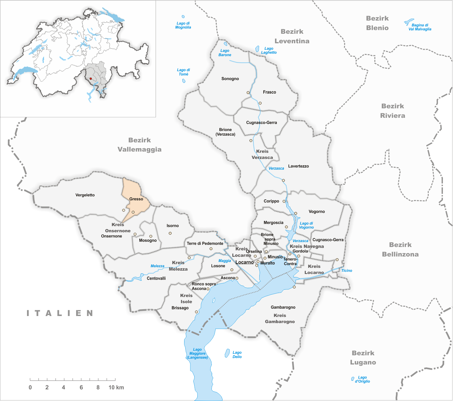 Municipality Gresso